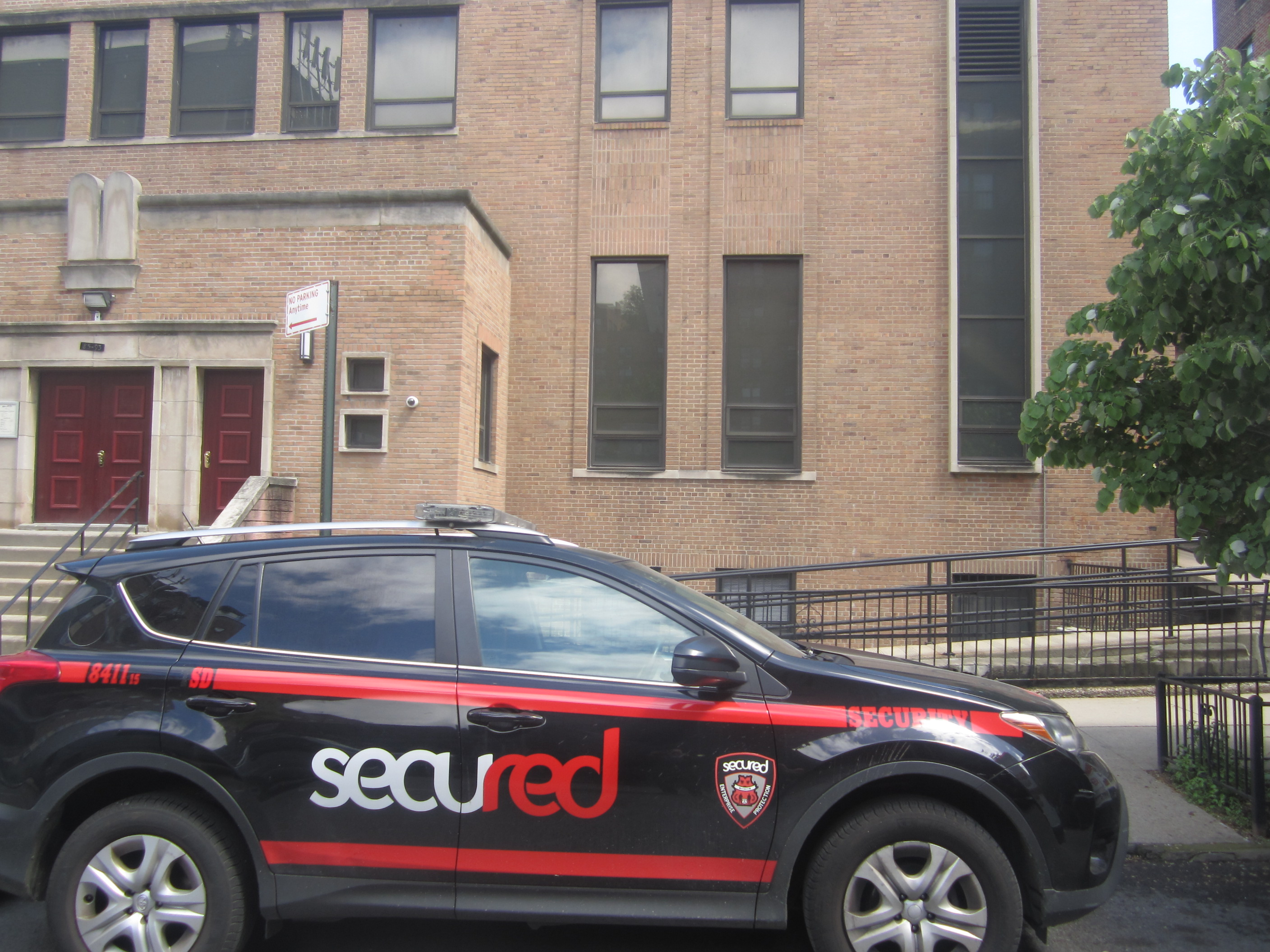 Exterior of shul building